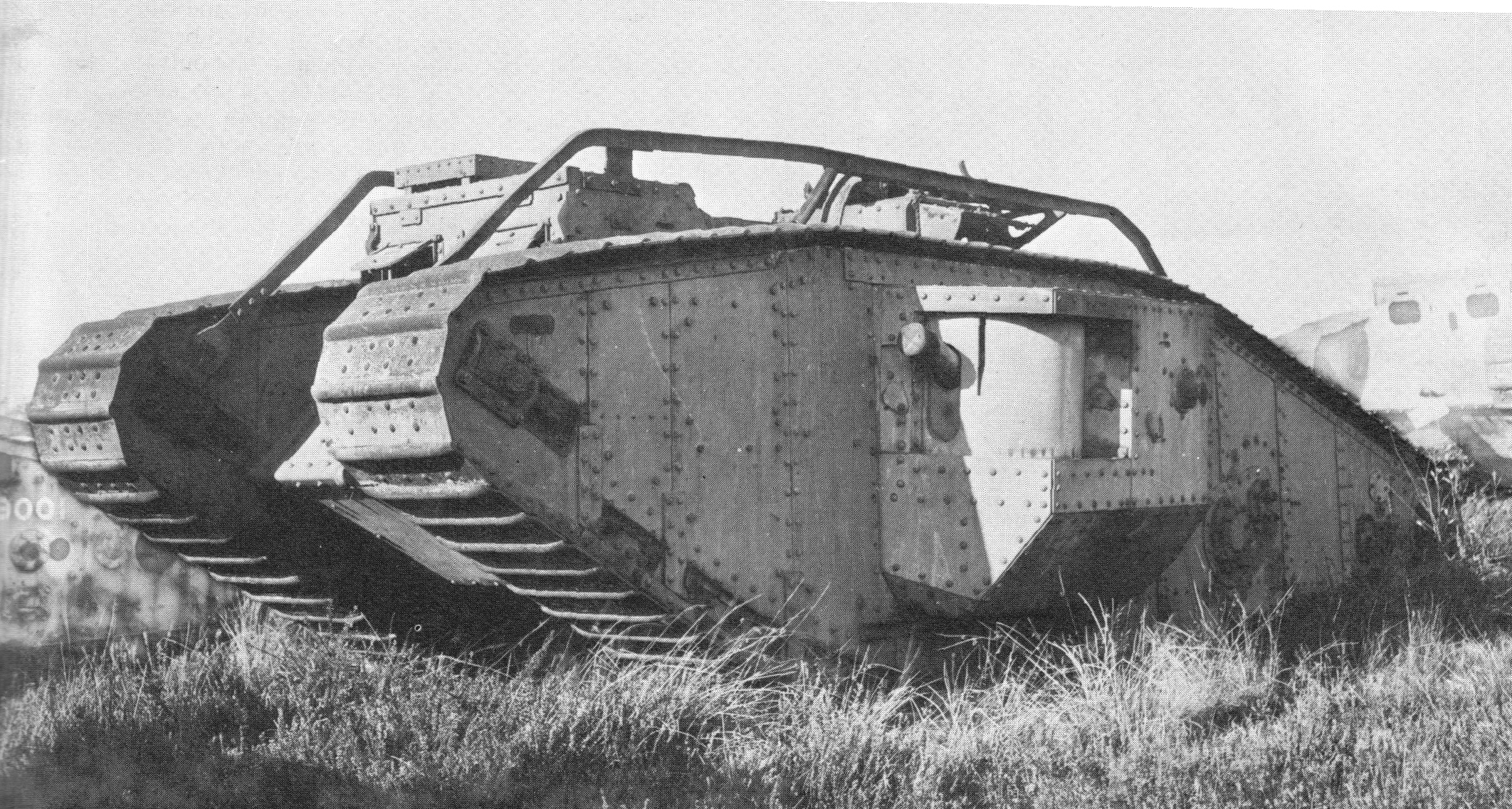 Mk VII tank in the scrap yard at Bovington base, 1928